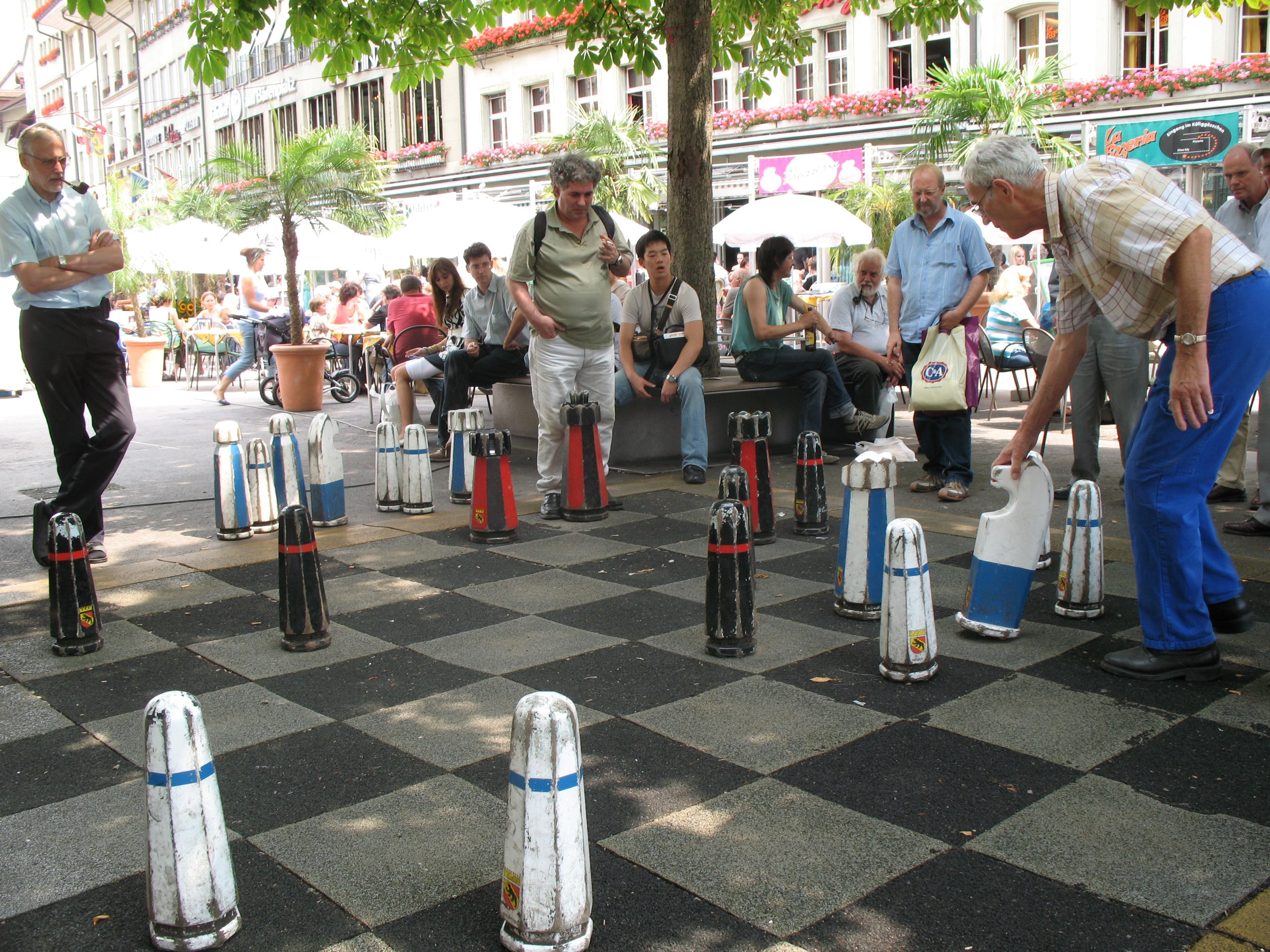 Chess being played on Bear Square, Berne, Switzerland